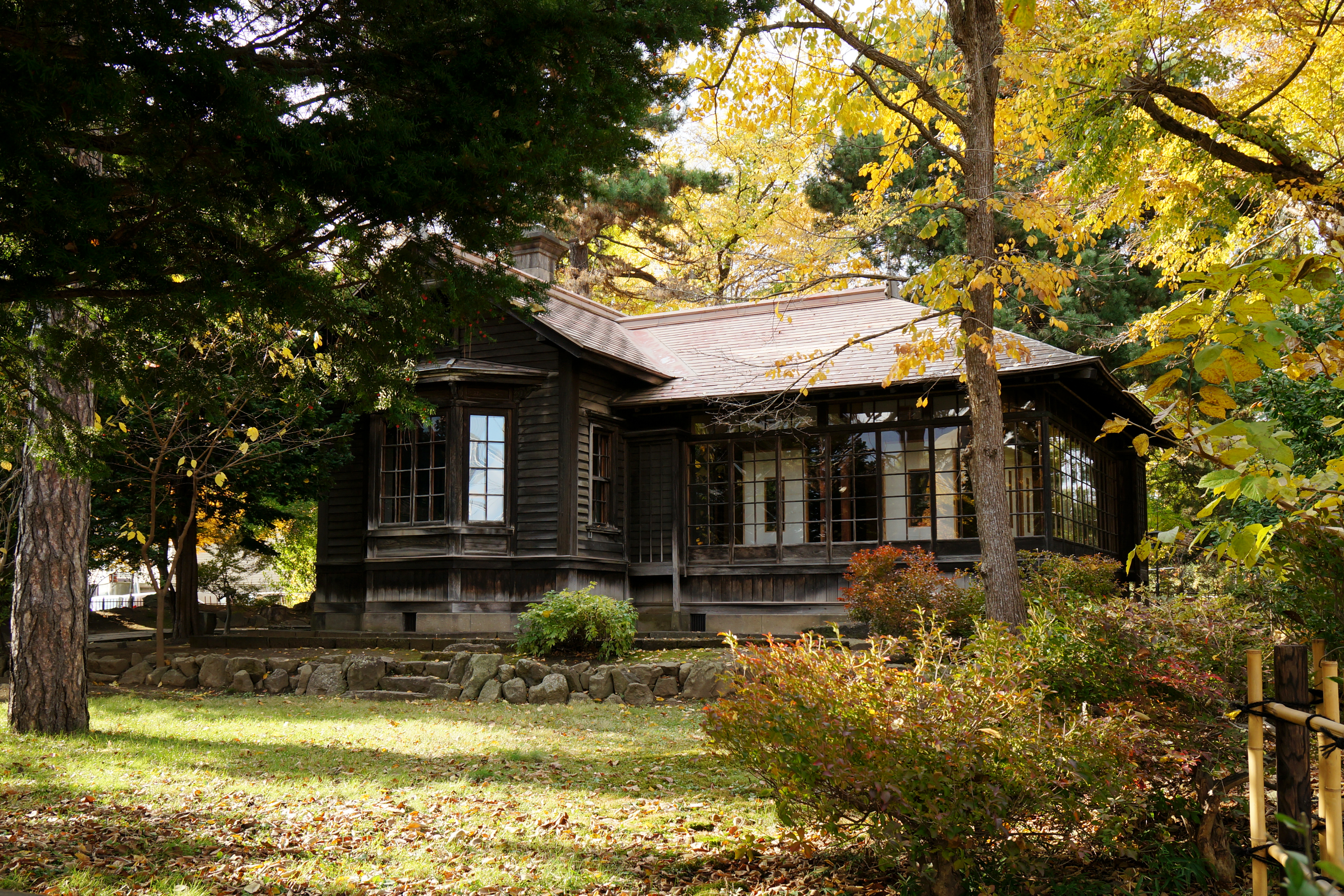 At Seikatei in Sapporo, Hokkaido prefecture, Japan.